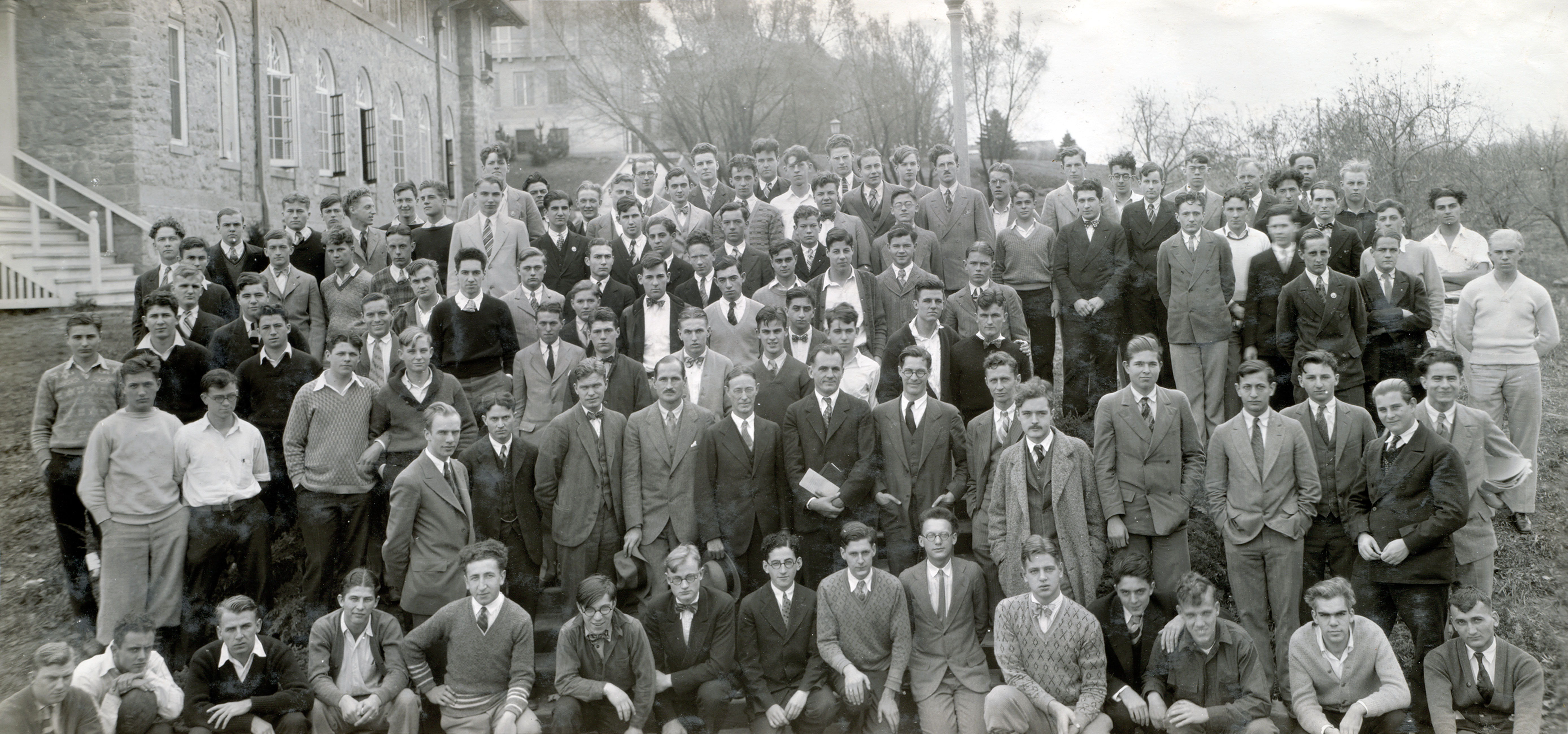 University of Wisconsin Experimental College 1927 group photo (edited for tone), from the Meuer collection